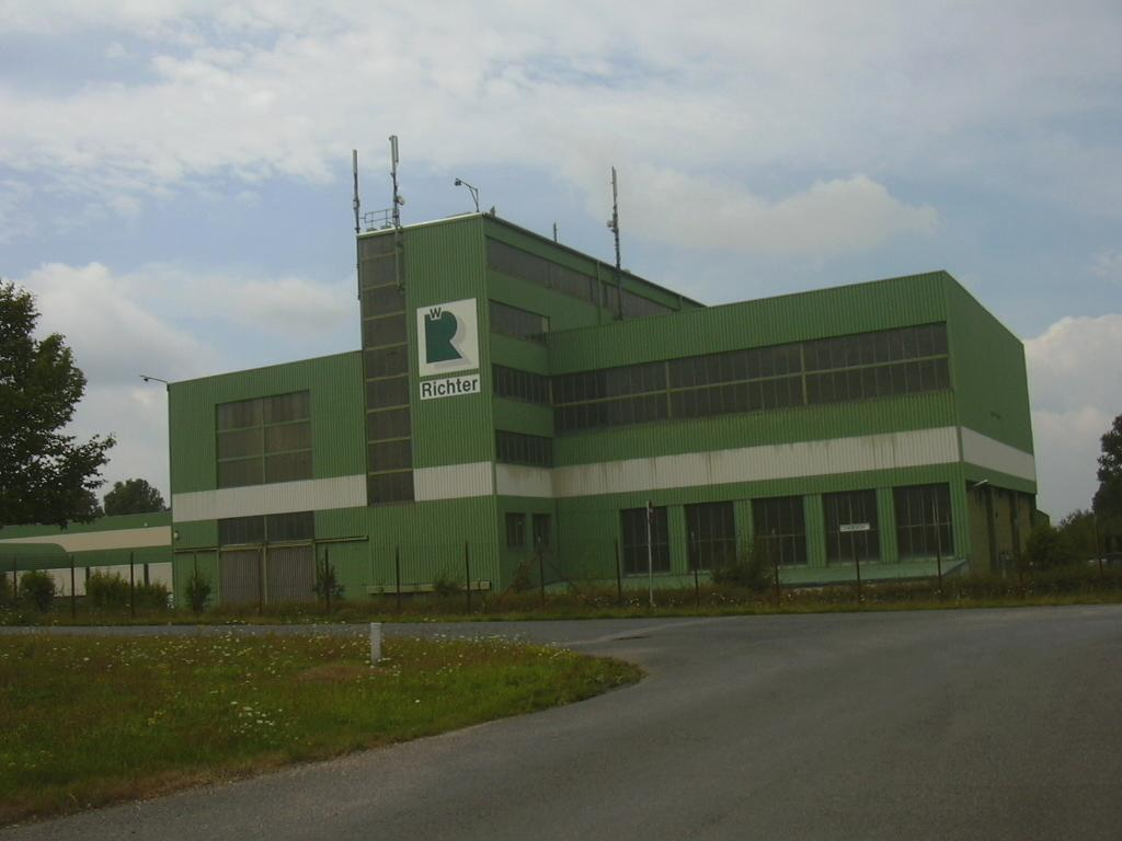 Maubacher Bleiberg own work papa1234 2006-08-04